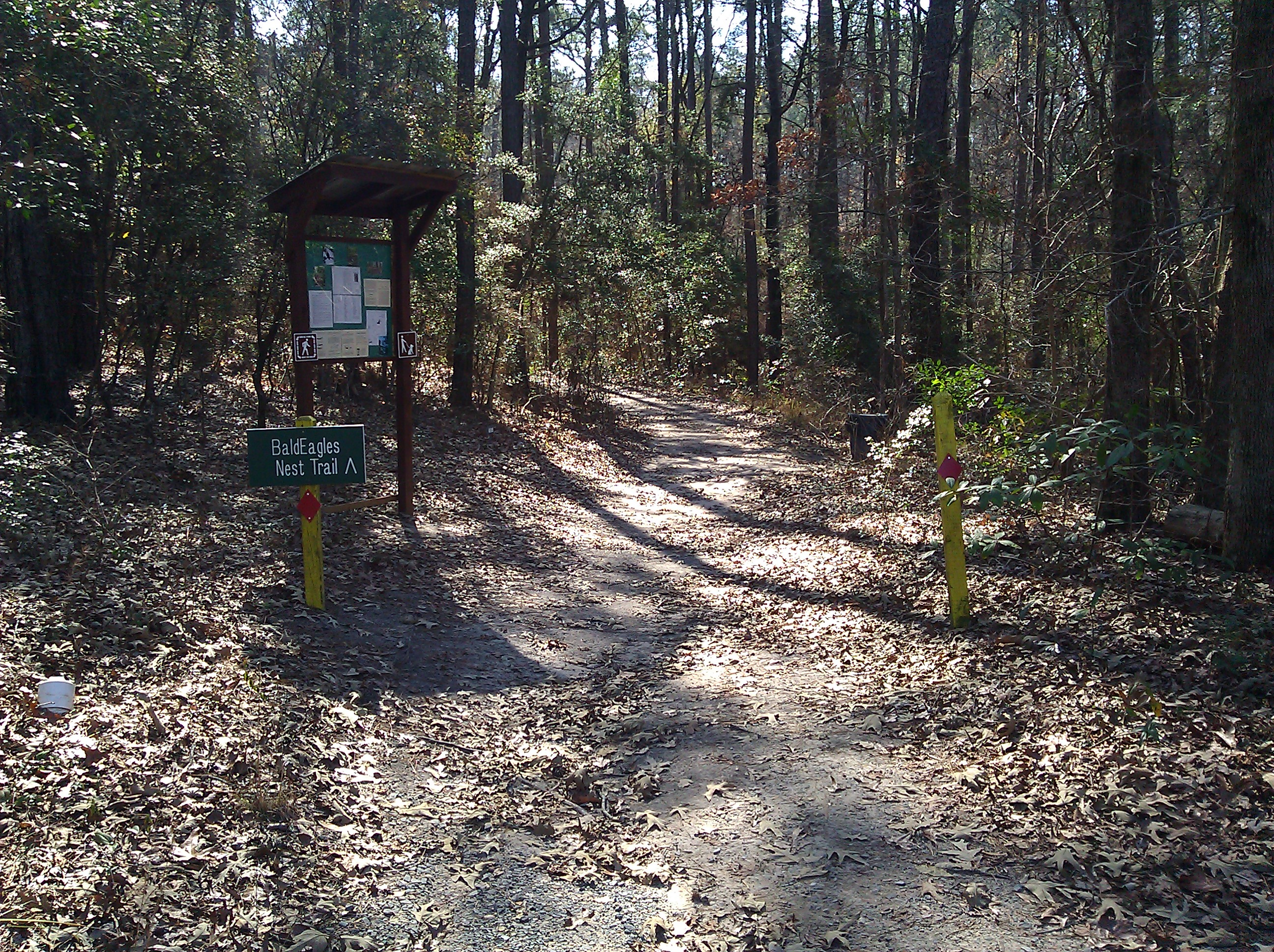 Entrance to the Bald Eagle Nest Trail at South Toledo Bend State Park near Anacoco, Louisiana.